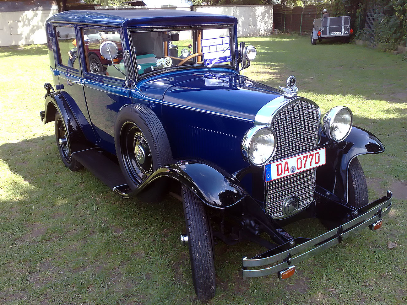 Opel 1.8B built in 1931